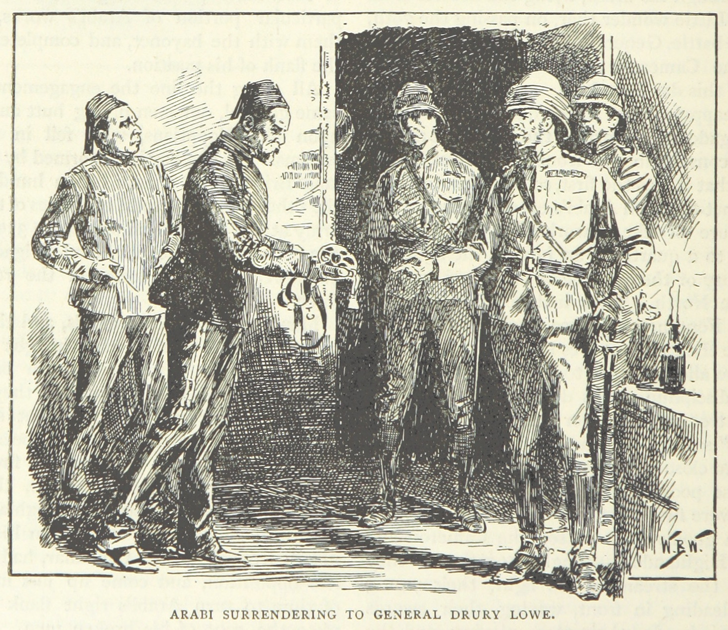 Egyptian nationalist Ahmed ‘Urabi surrenders to Drury Drury-Lowe in 1882, ending his revolt.